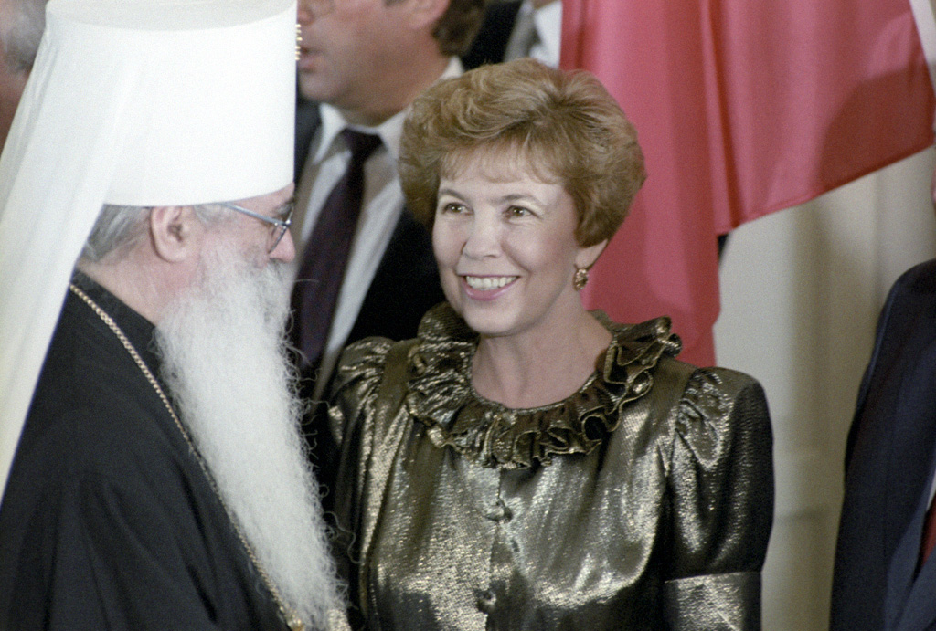 “Metropolitan Pitirim and Raisa Gorbacheva”. The official visit of the CPSU General Secretary, Chairman of the USSR Supreme Soviet Mikhail Gorbachev to the Federal Republic of Germany. Metropolitan of Volokolamsk and Yuryevsk Pitirim and Mikhail Gorbachev's wife, Raisa at the Reception House "Redoubt" at a dinner given in honor of the guests on behalf of the Federal Chancellor of Germany Helmut Kohl and his wife.